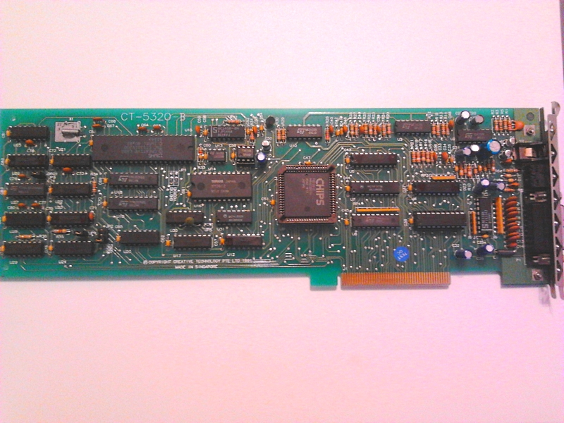 The Creative Labs CT5320B Micro Channel SoundBlaster